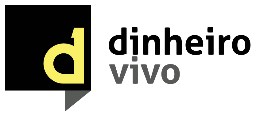 Logótipo Dinheiro Vivo